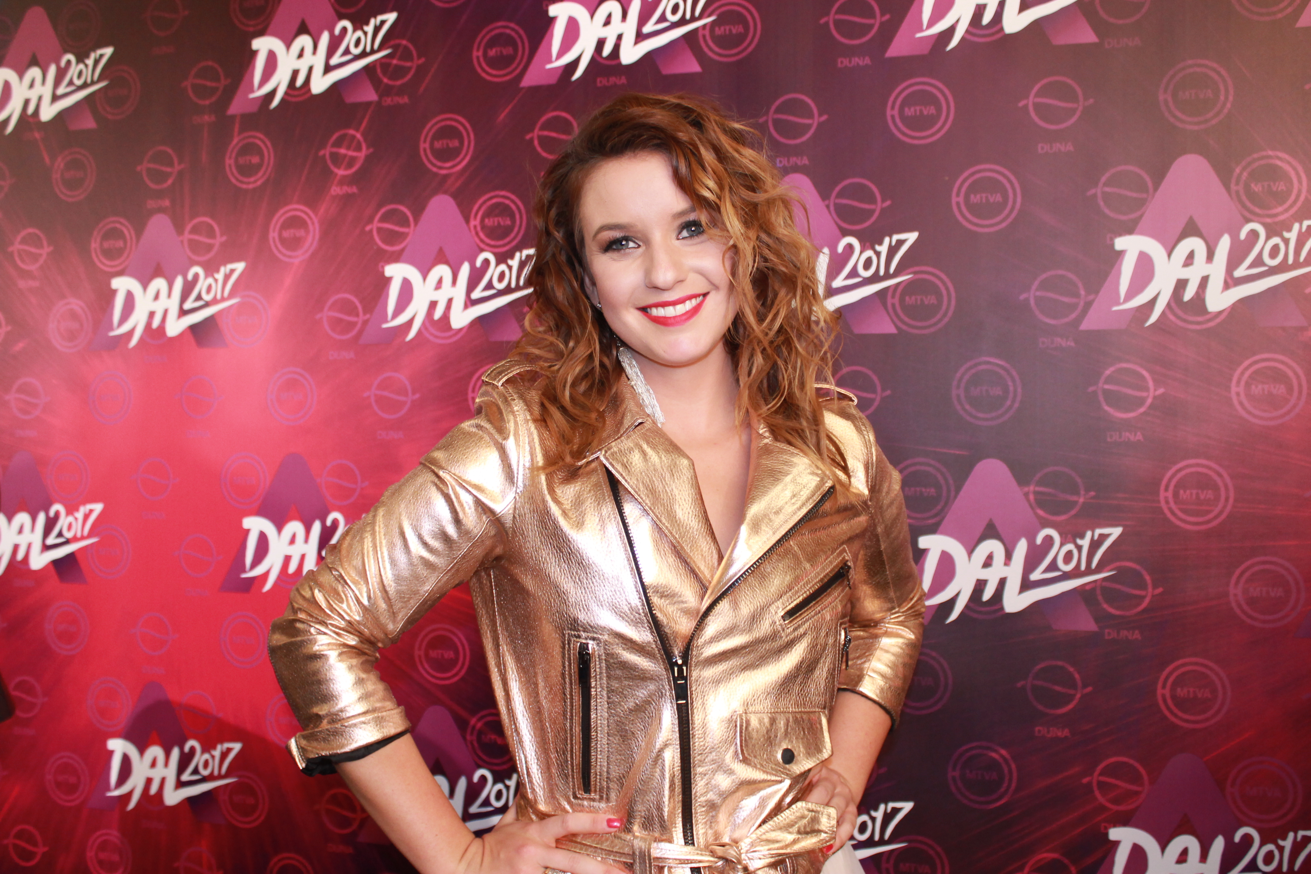 Kriszta Rátonyi, deputy host of A Dal 2017 after the first semi-final